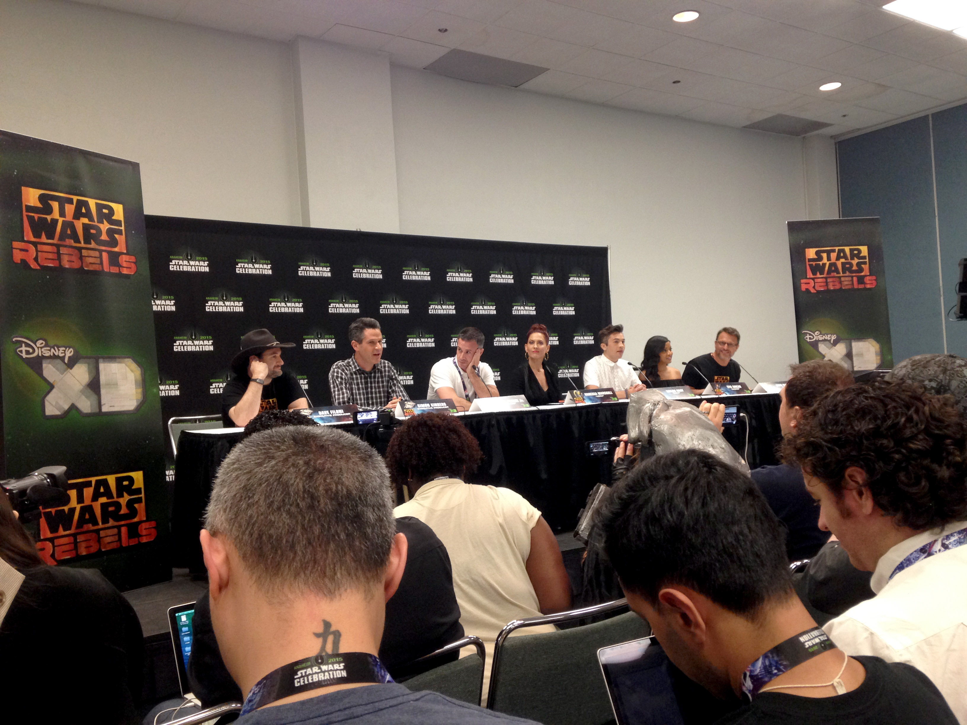 Celebration - Star Wars Rebels press conference Star Wars Celebration in Anaheim, April 2015.